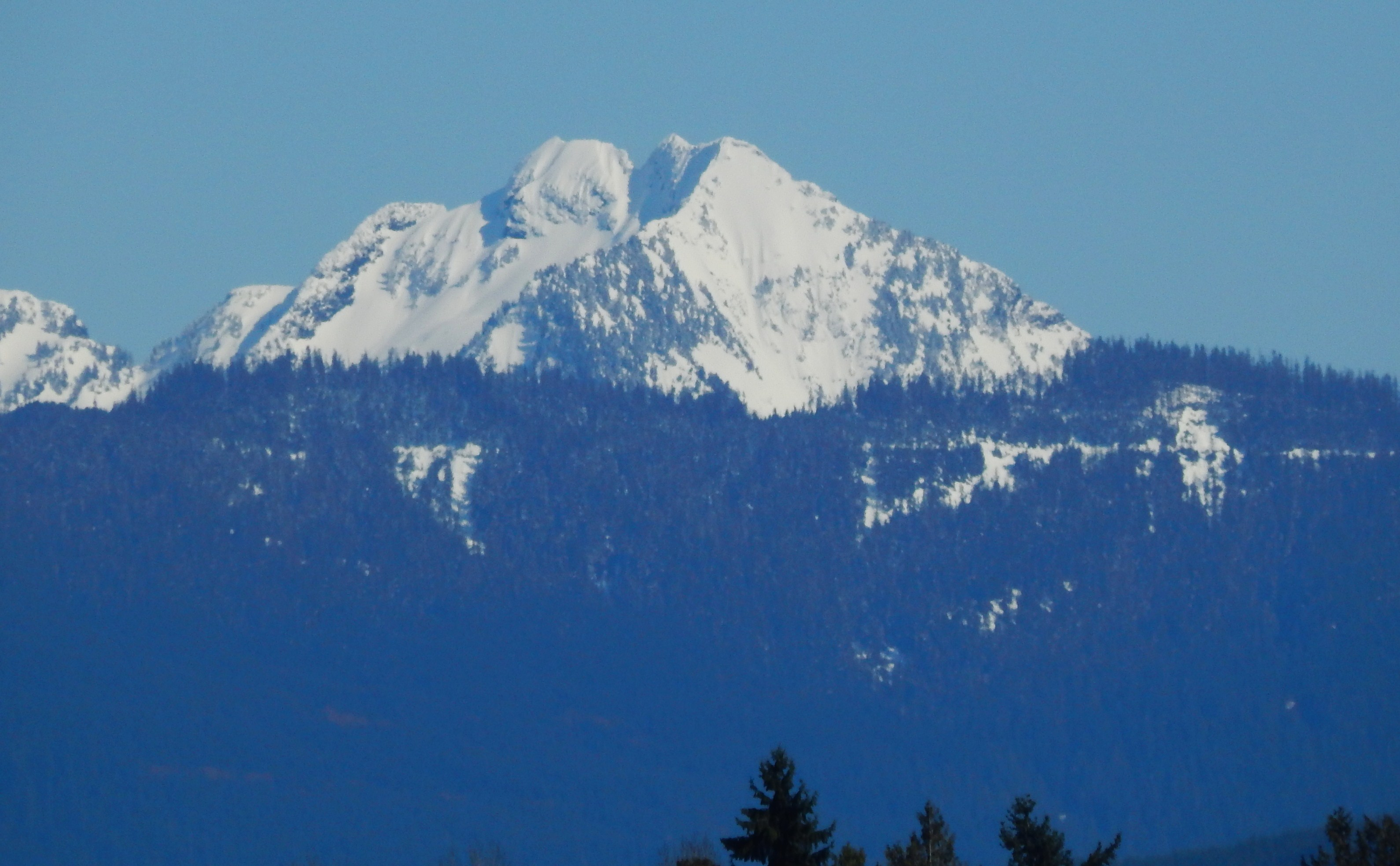 Big Bear Mountain 5641 feet, seen from Lake Stevens WA